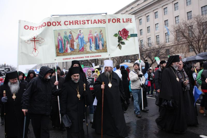 Orthodox hierarchs, clergy, seminarians, and faithful marching.